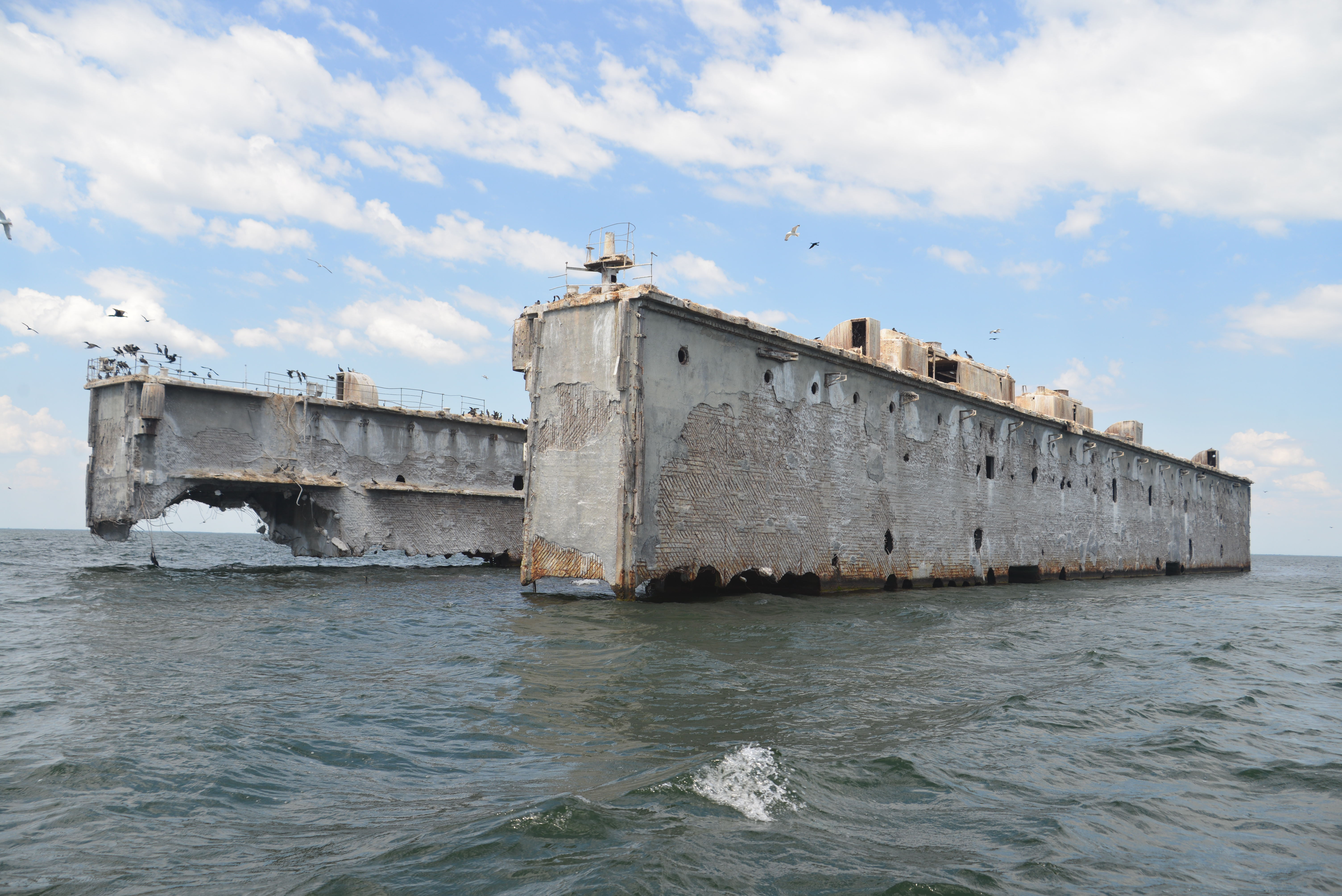 Docking target.Yagorlytsky bay. Black Sea Biosphere Reserve. Ukraine.